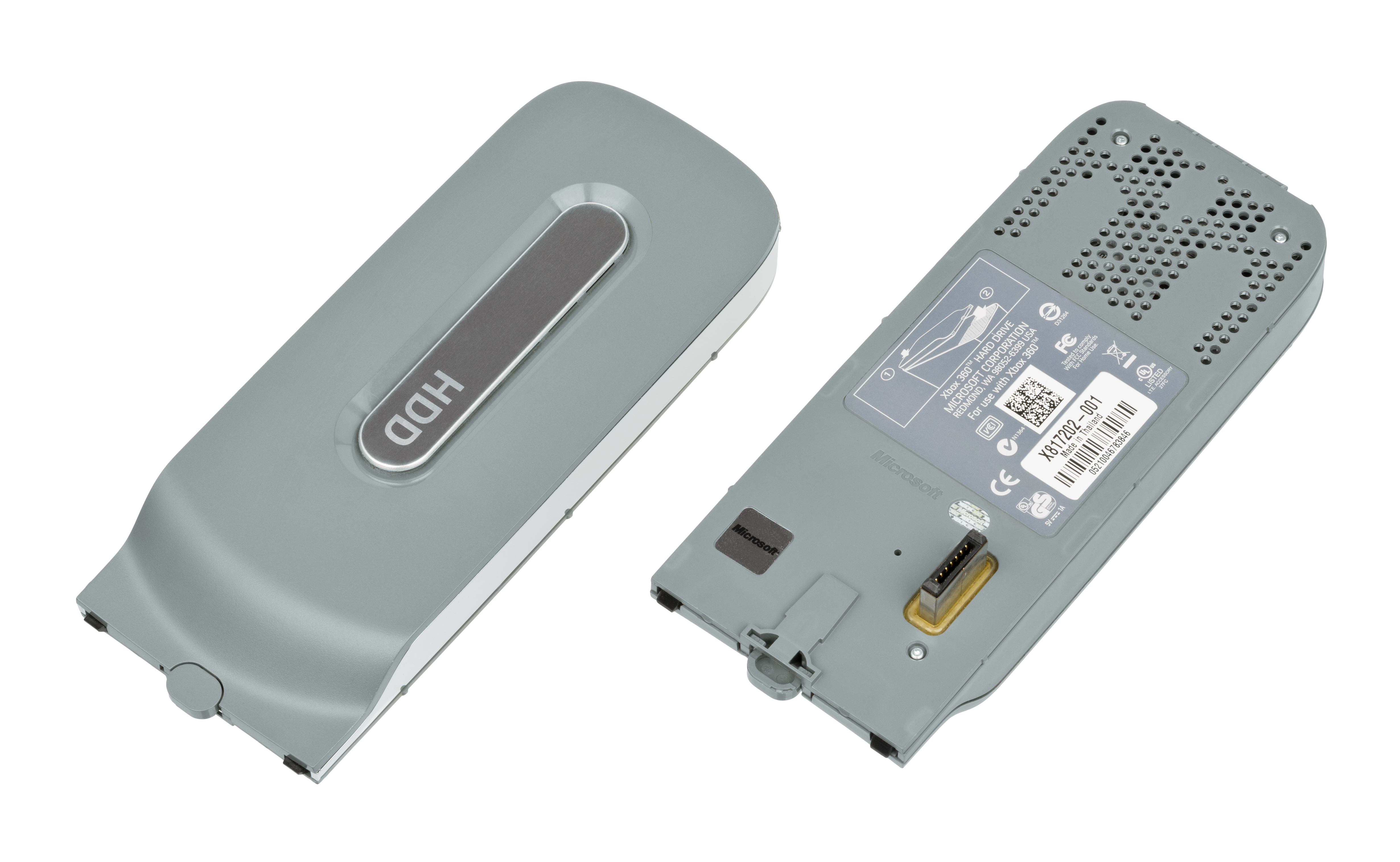 The top and bottom of two hard drives for the Microsoft Xbox 360 video game console. The left is an original 20GB model and the right a 60GB model.